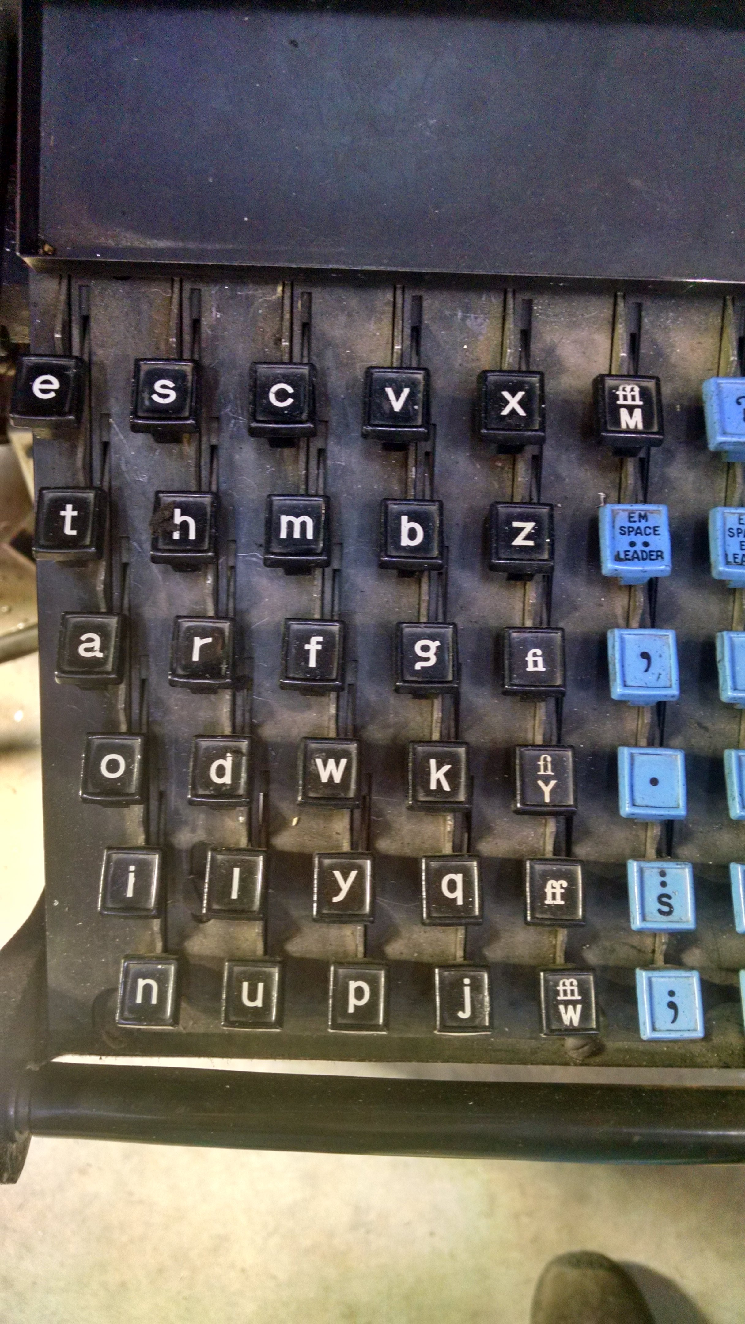 Portion of the keyboard of a linotype typesetting machine, showing pattern of keys.